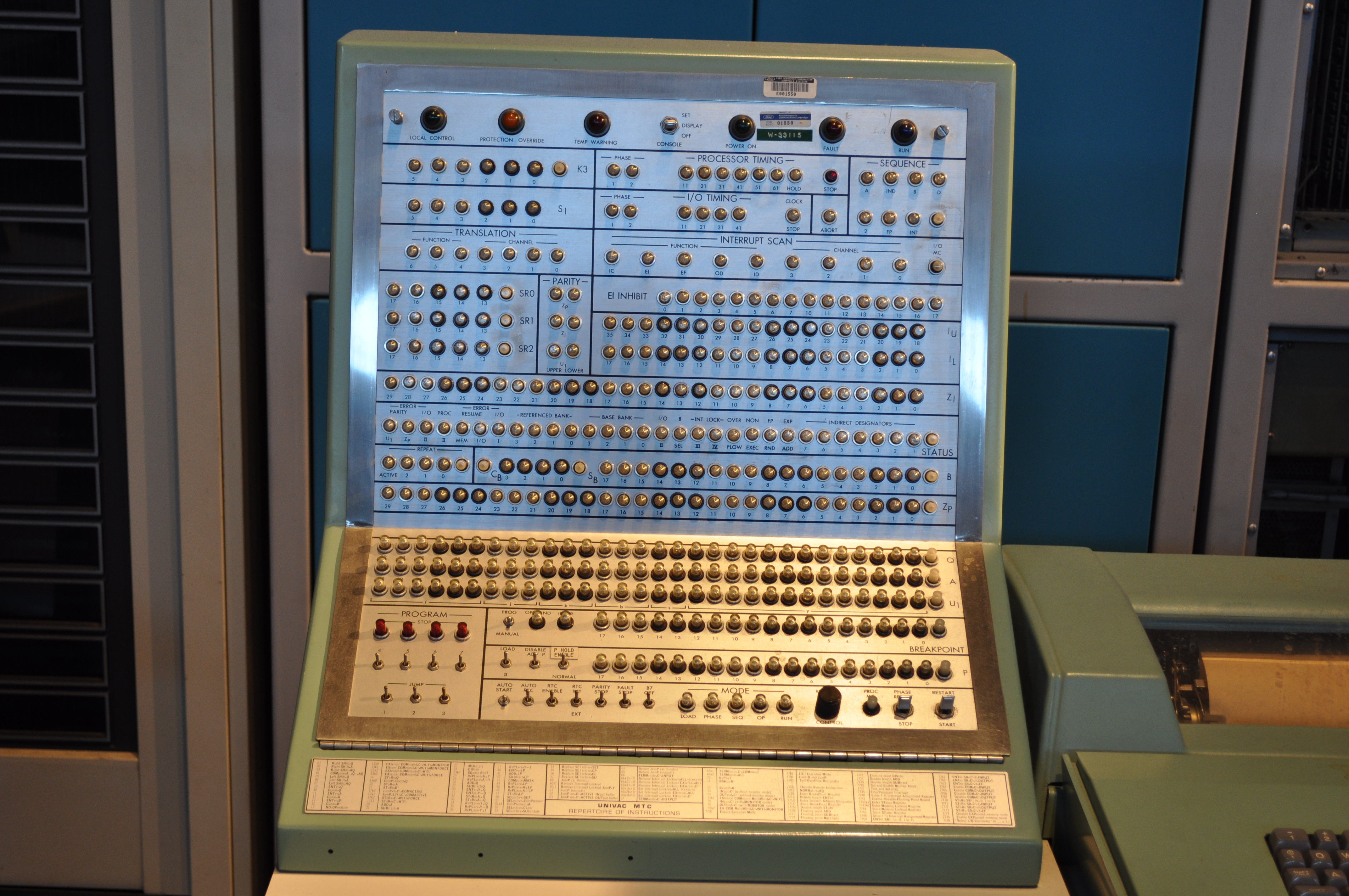 Several photos from the Steven F. Udvar-Hazy Center at the Smithsonian National Air and Space Museum Univac 1232 Computer The Caption reads: UNIVAC 1232 Computer This computer was used from abotu 1967 through 1990 by the U.S. Air Force's Satellite Control Facility in Sunnyvale, California, in the heart of "Silicon Valley." At this facility, now called Onizuka Air Station, more than a dozen other Sperry 1230-series computers operated in "real time" around the clock as part of a system that controlled and operated satellites for the Air force, NAS, other government agencies, and commercial firms. The 1232 also supported Space Shuttle missions. Manufactured by Sperry Univac's St. Paul, Minnesota, division, the 1232 was a military version of the UNIVAC 490 general purpose commercial computer. It used discrete transisters, was optimized for real-time use, had a 30-bit word length, and initially was supplied with 32,000 words of memory—about 123 kilobytes. Transferred fromt he U.S. Air Force A19930083000